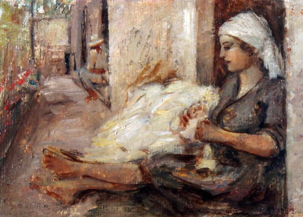 La cardatrice. In the Park